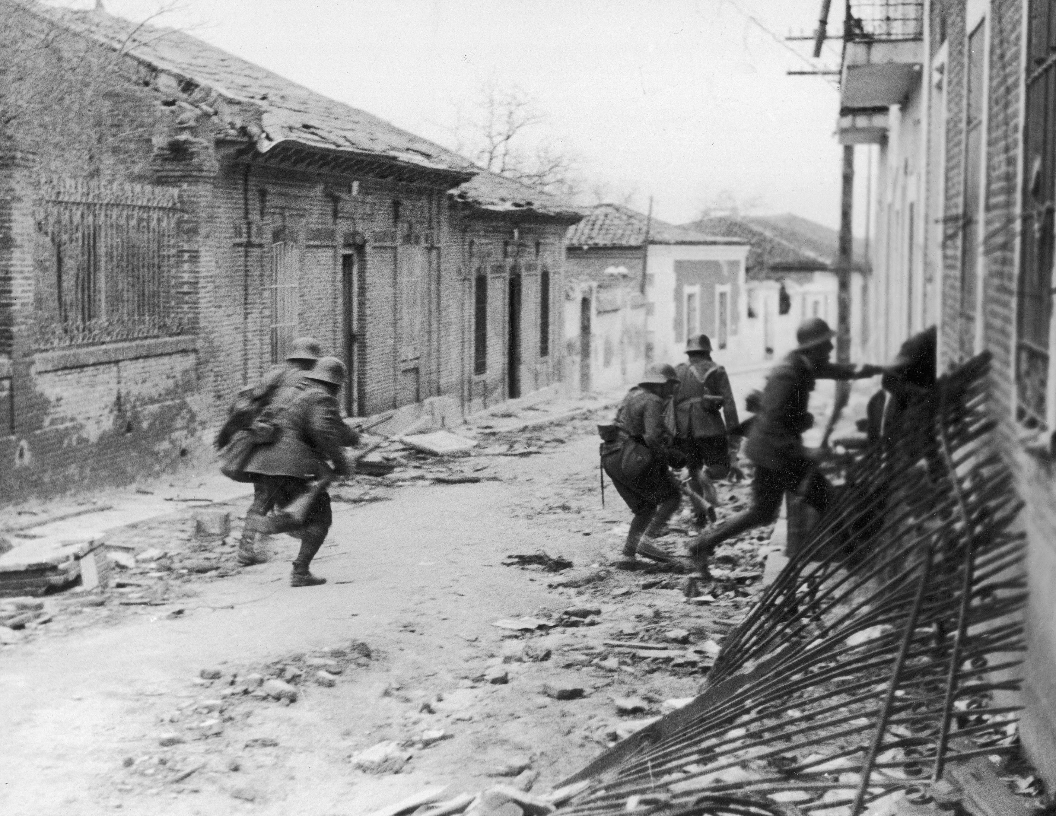 Nationalist soldiers raiding a suburb of Madrid during the Spanish Civil War